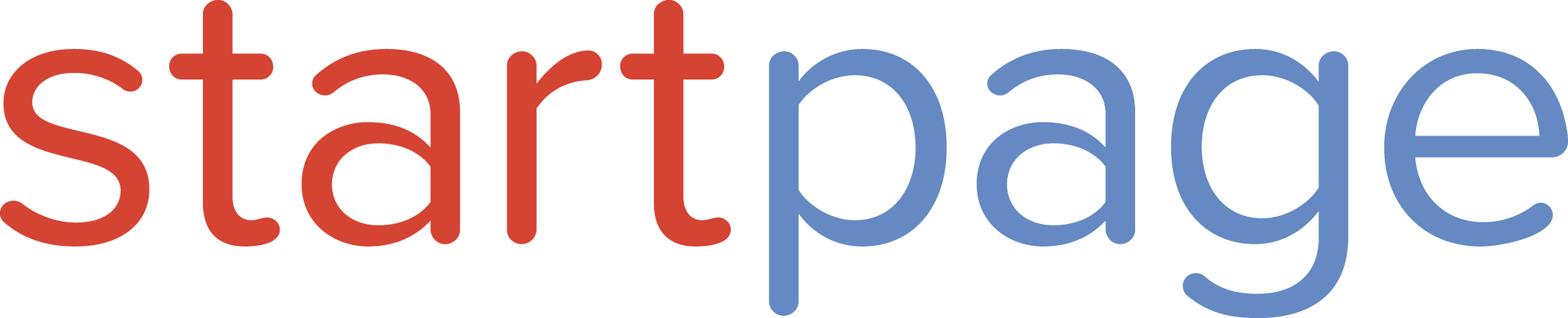 Former logo of w